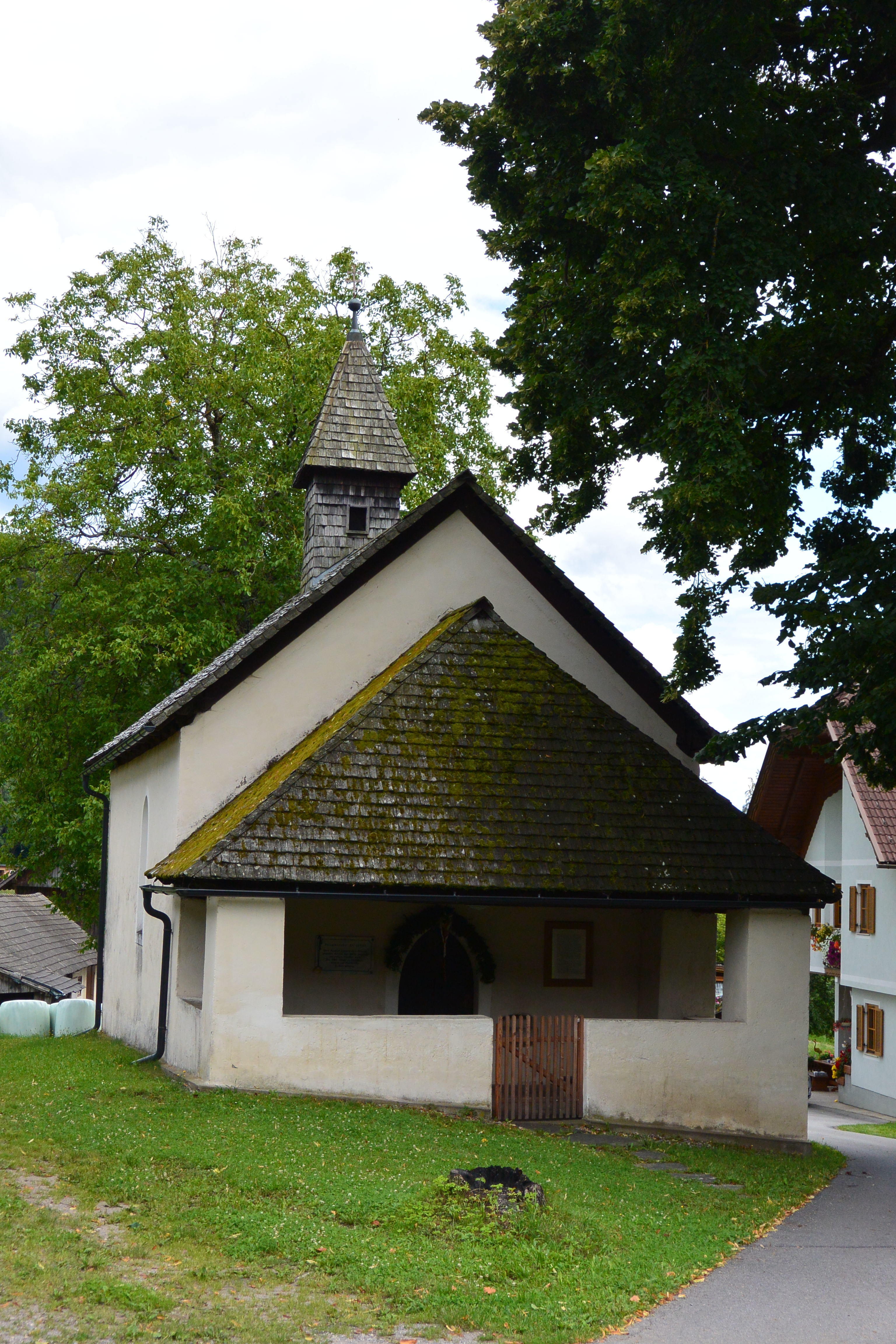 Church Sankt Jakob ob Ferndorf in the community of Ferndorf